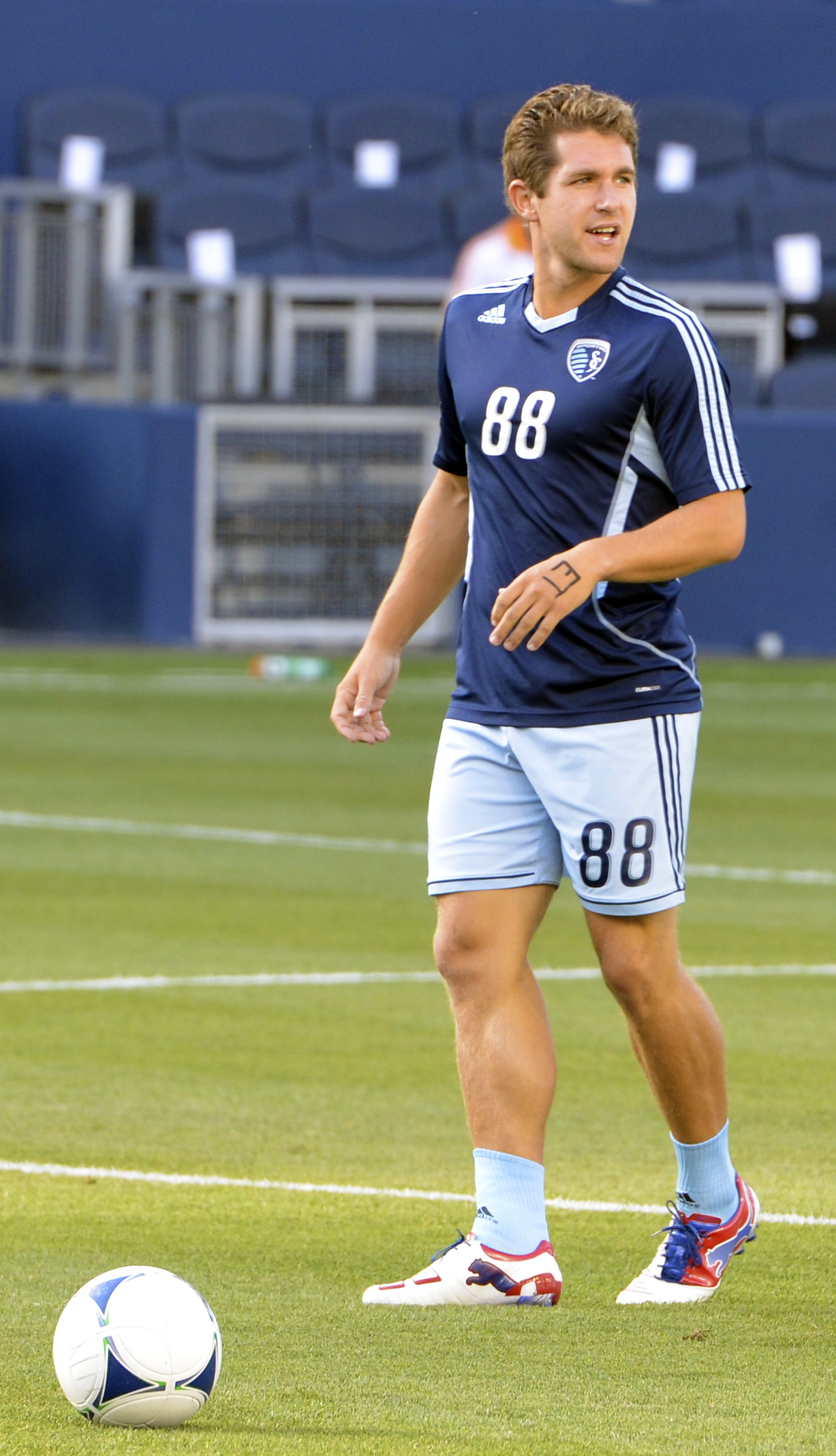 Michael Thomas of the Sporting KC warms up for a game against the Houston Dynamo's at Livestrong Sporting Park, on July 7th, 2012.